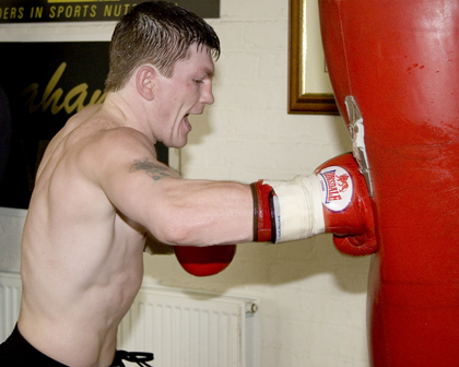 Richard Hatton (also called Ricky Hatton) training - photo 1 May 2006.